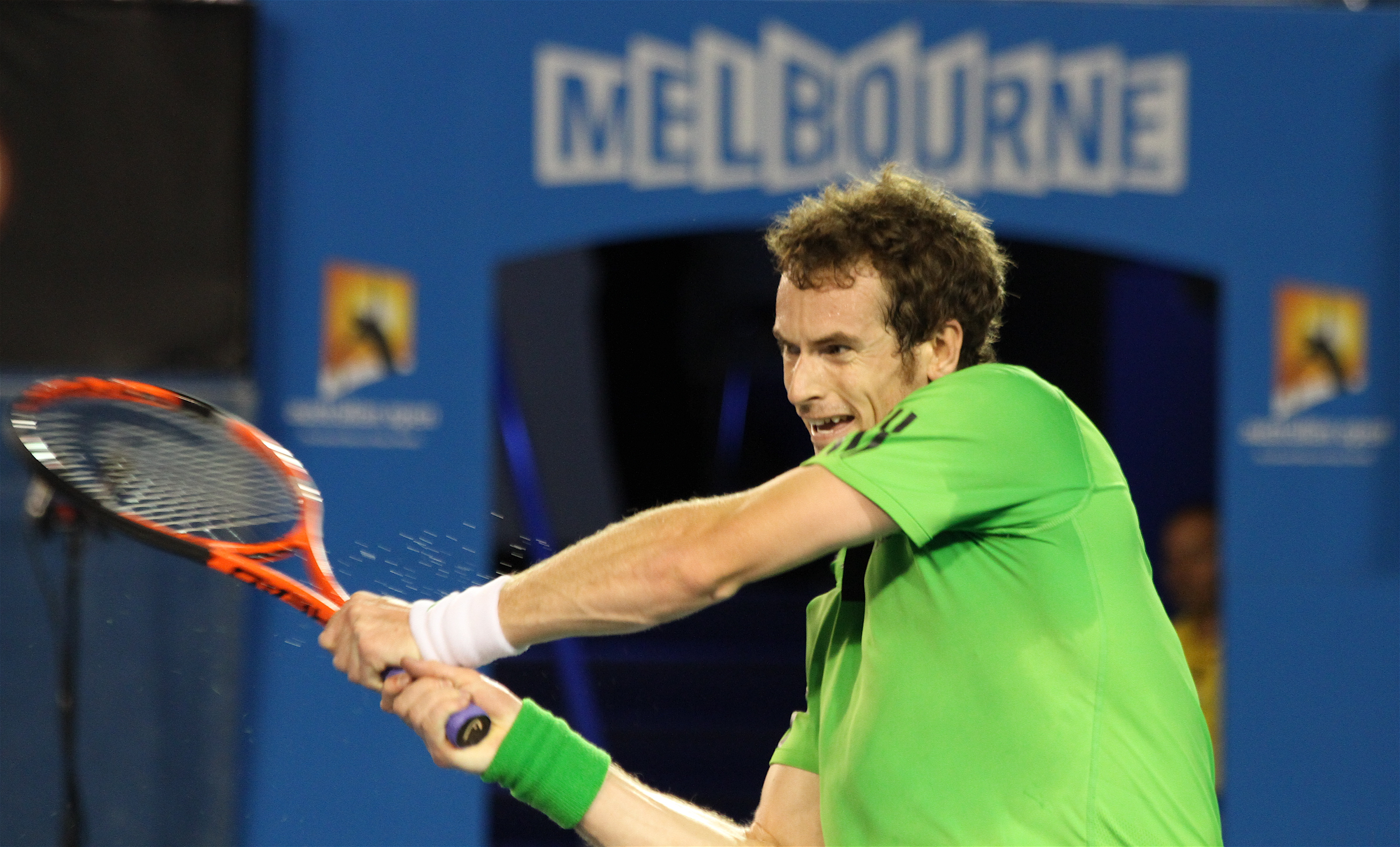 Andy Murray against Djokovic at the AO